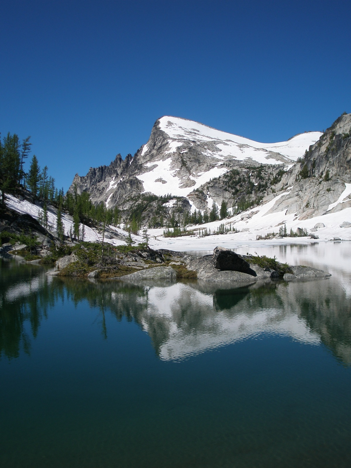 Little Annapurna over Rune Lake. Lost World/Enchantments July 2007